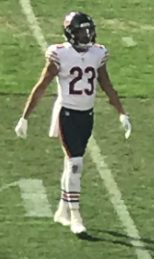 Kyle Fuller in 2018